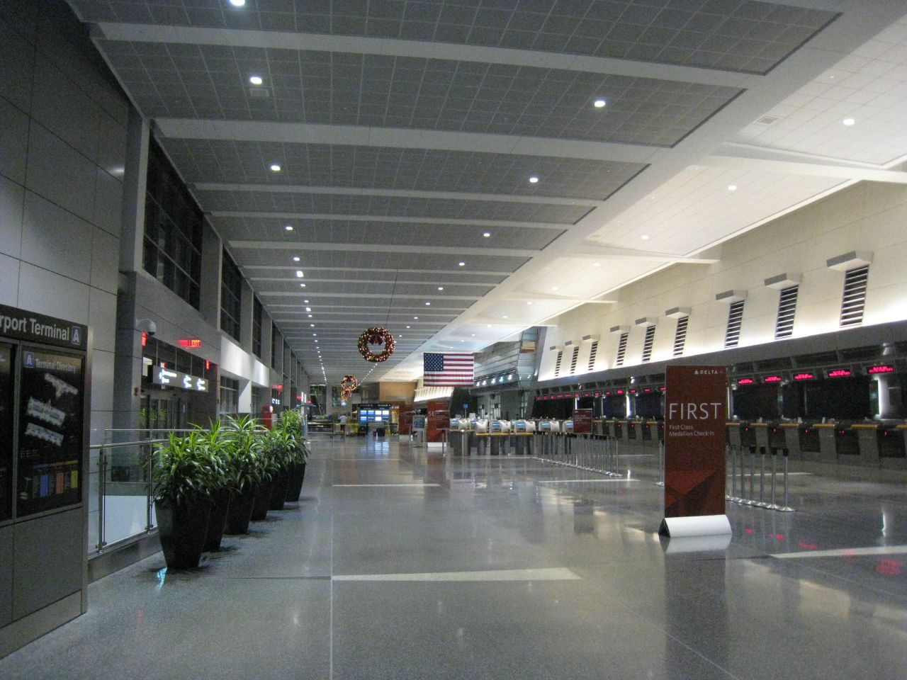 Logan Airport's Terminal A at night.